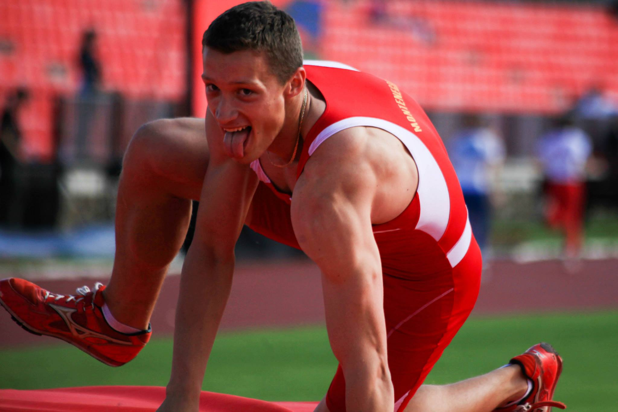 Darko Pesic in High Jump